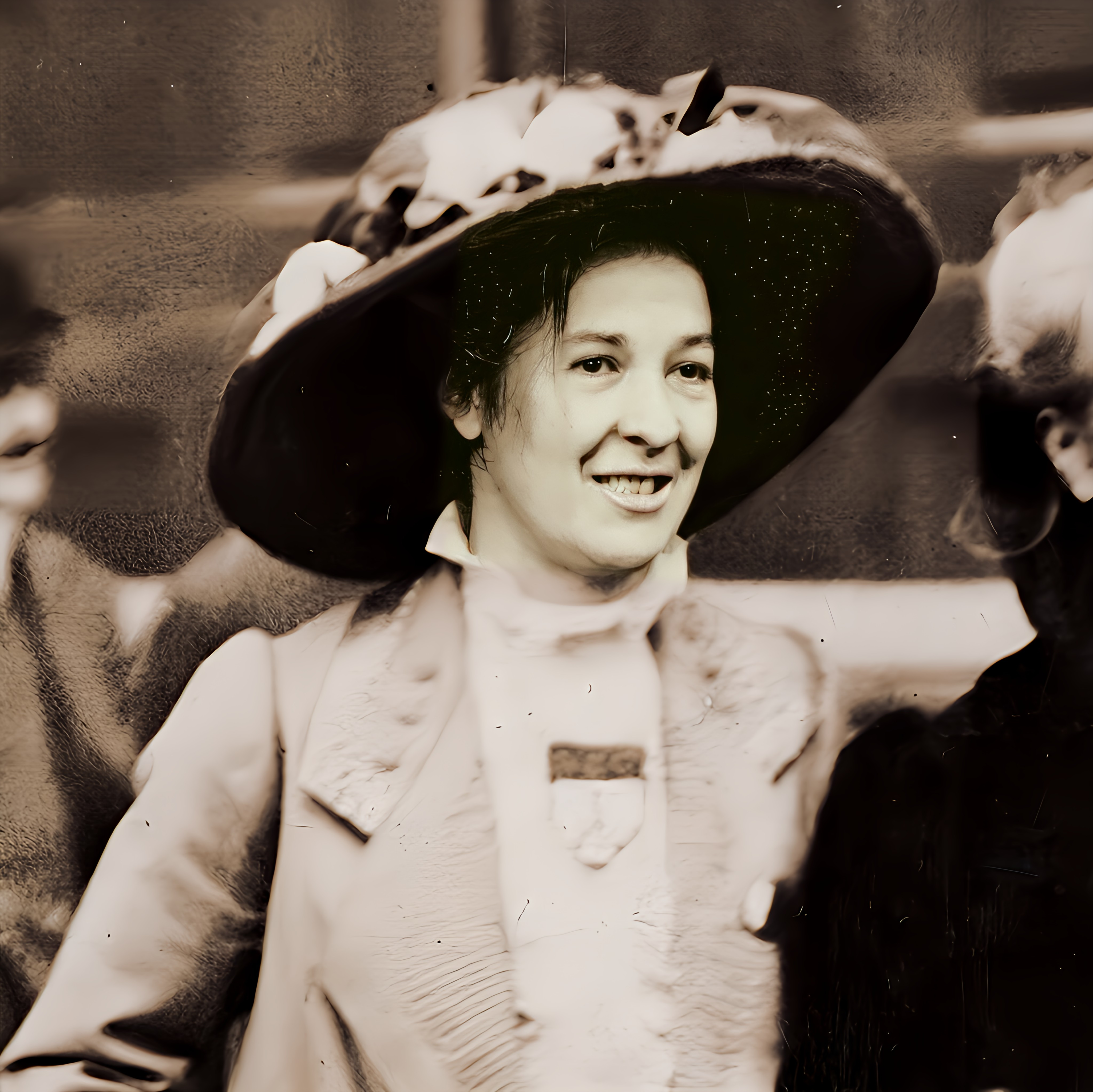 7JCC/O/02/067 Photograph, printed, paper, monochrome, Edith How Martyn , Charlotte Despard, and Emma Sproson walking arm in arm down a street, watched by a policeman; manuscript inscription on reverse 'Women's Freedom League. Mrs Despard, Mrs How-Martyn and Mrs Sproson'. The image has been cut from a larger photograph